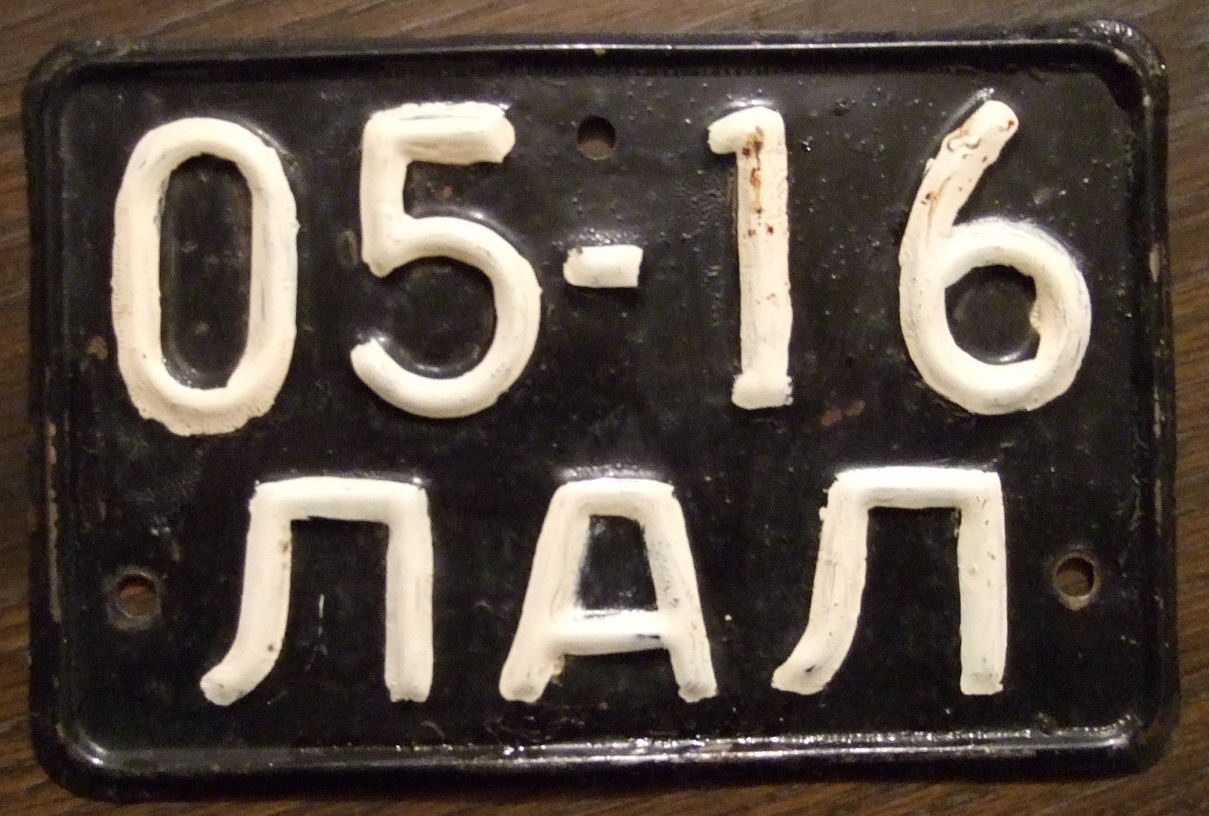 Latvian SSR motorcycle plate of the 1960 series